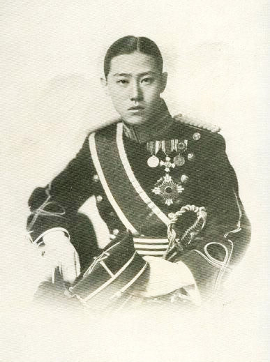 Prince Yi Wu of Korea under Japanese military service.